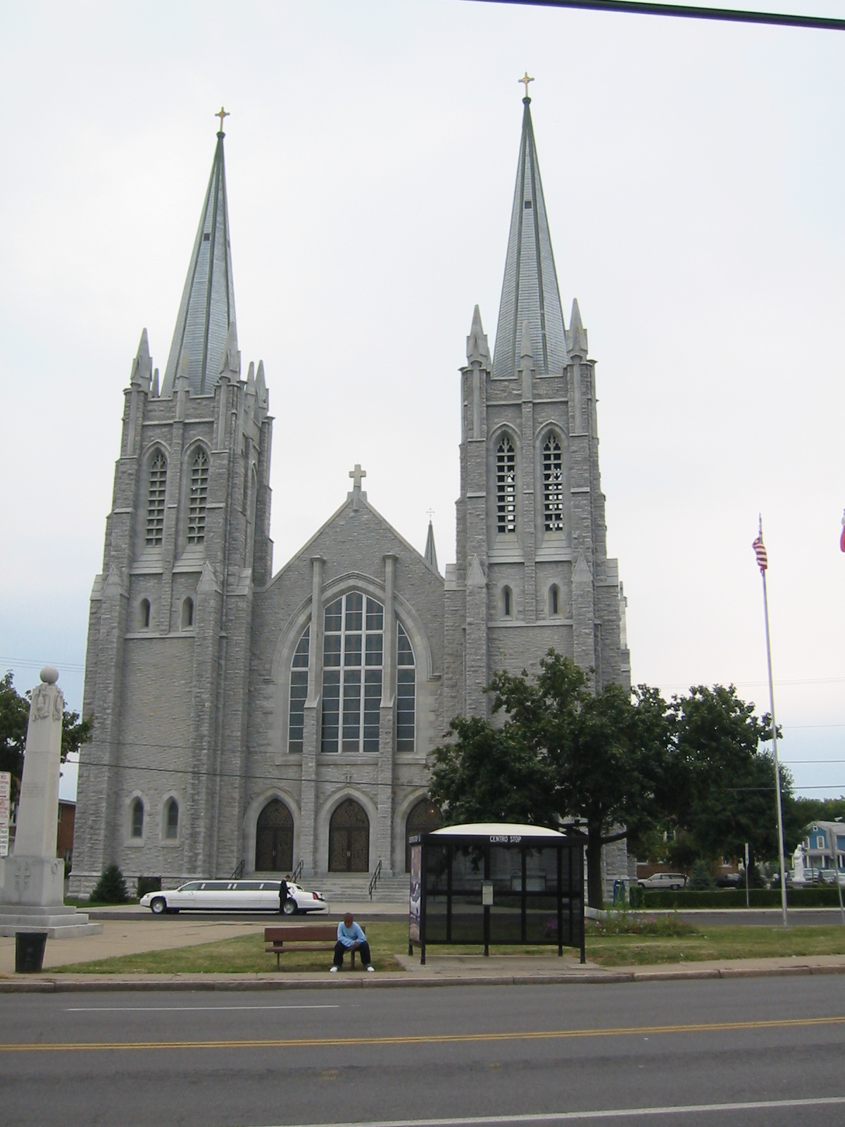 927 Park Ave, Syracuse, NY, United States